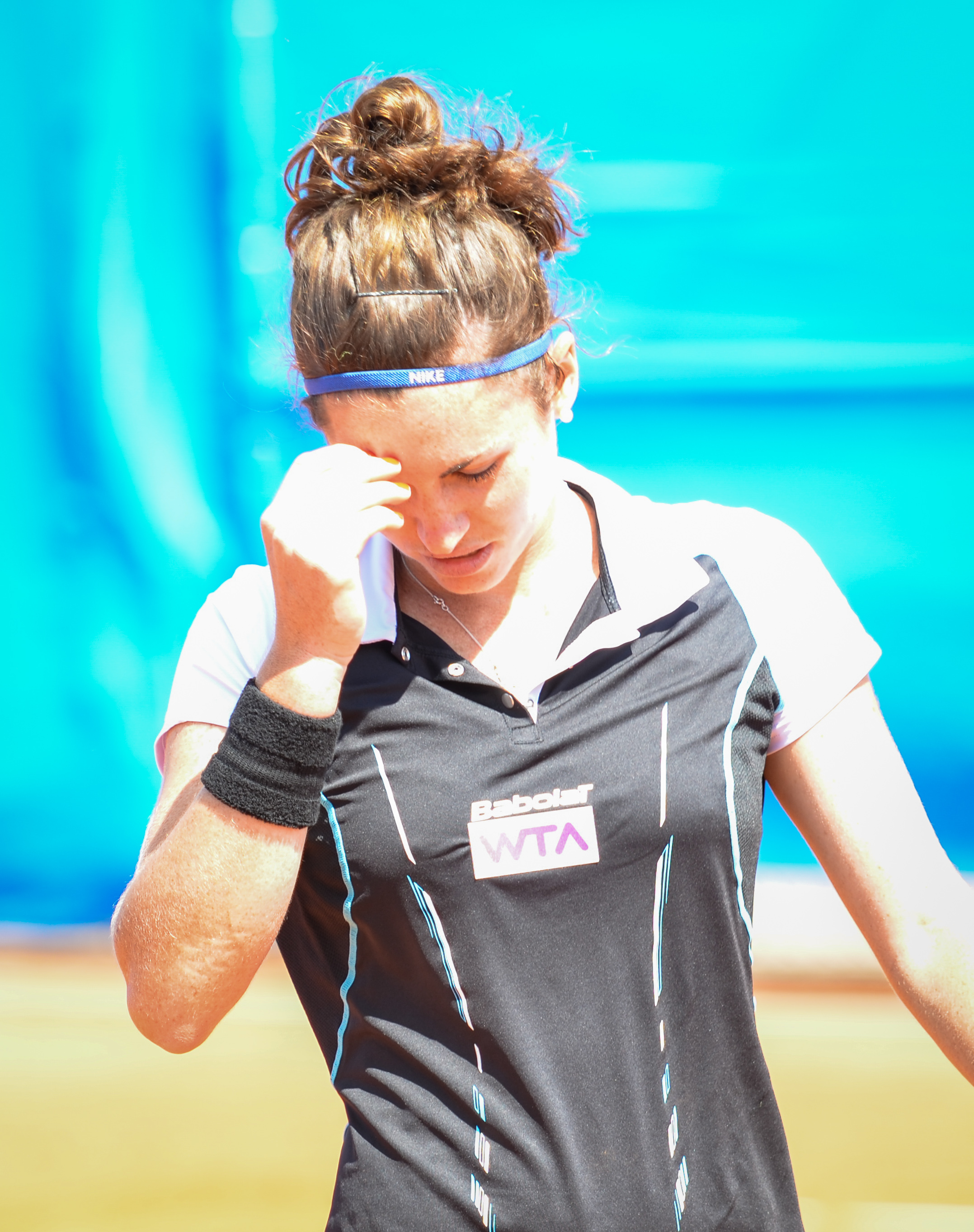 Andrea Gámiz during her 1st round match doubles match with Beatriz García Vidagany against Kristina Barrois and Eleni Daniilidou at the 2014 Nürnberger Versicherungscup on May 20, 2014